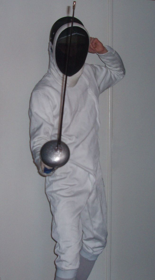 Third position in Fencing (Tierce)